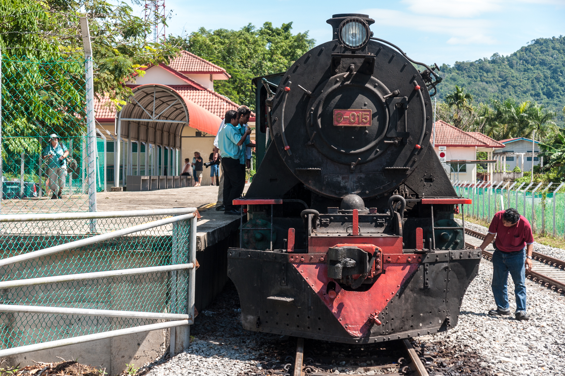 Kinarut, Sabah: Short stopover of "The Heritage Steam Train" at Kinarut Railway Station